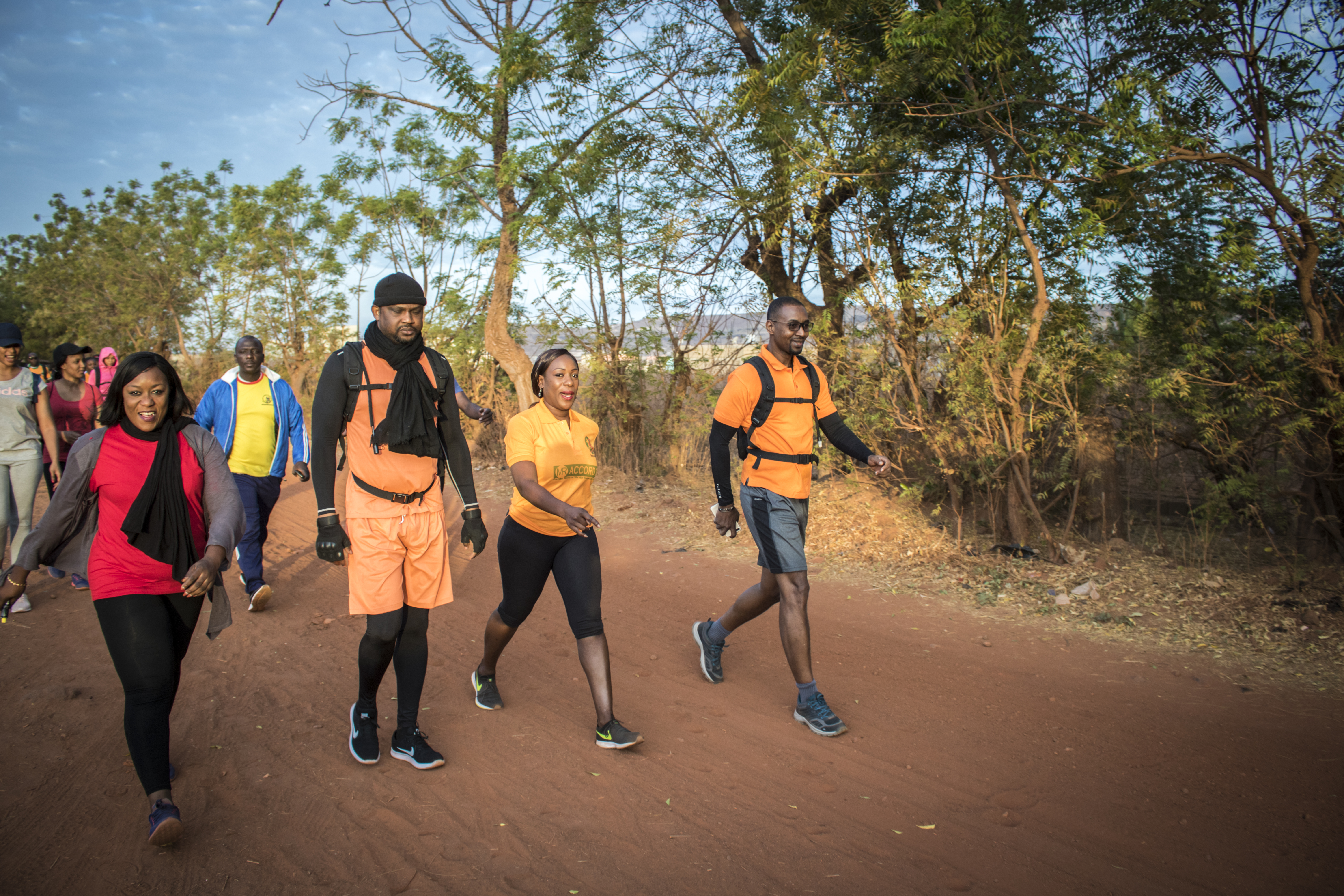 This is an image with the theme "Play" from: Mali